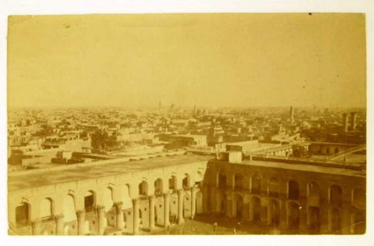 Elevated View of Baghdad, Iraq, World War I, 1917. British Empire forces first entered Baghdad on 11 March 1917 and Trezise's service records note that he rejoined his unit in Baghdad after leave on 19 September 1917.